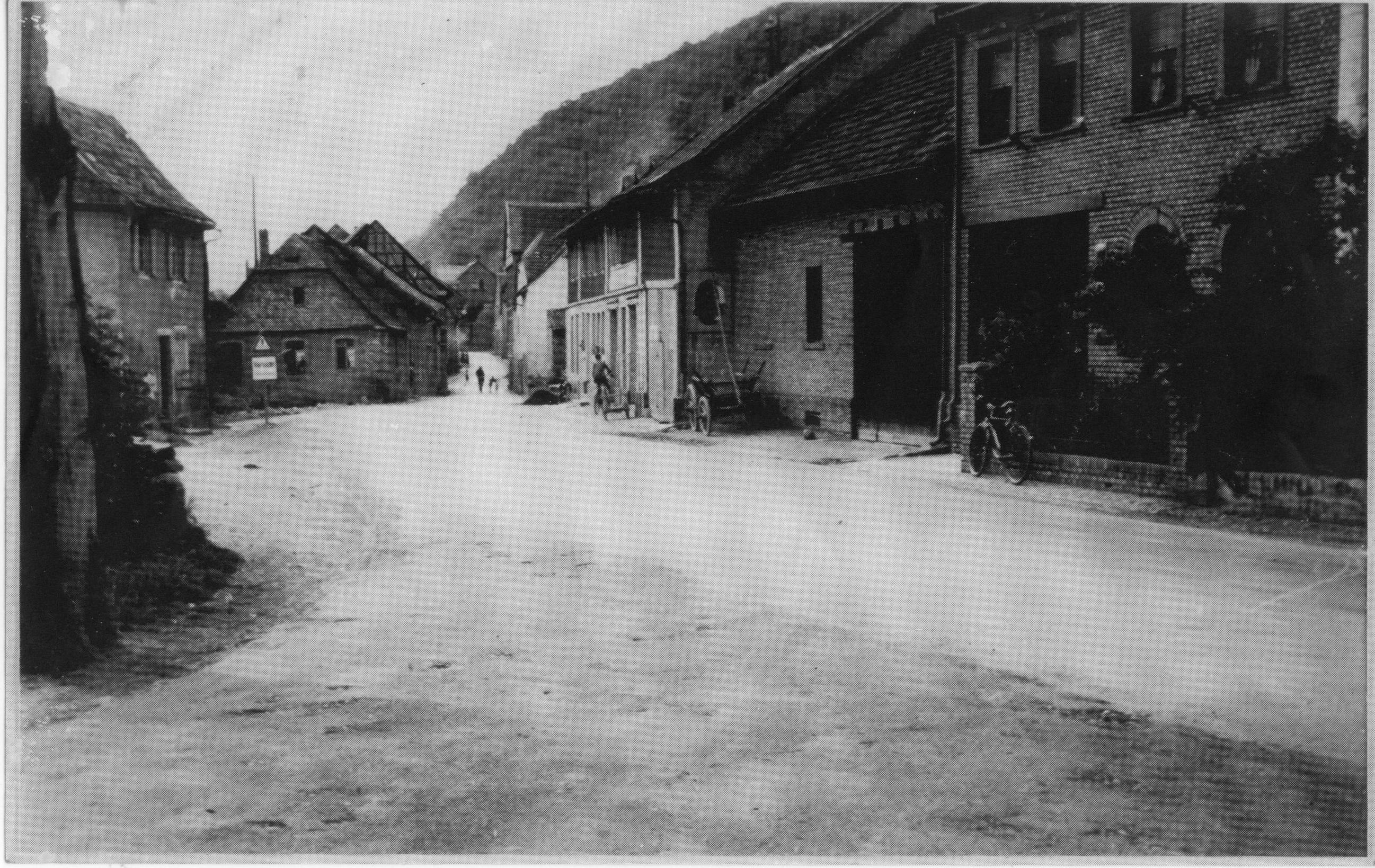 Martinstein